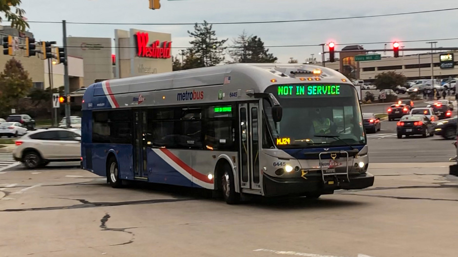 WMATA 2009 New Flyer DE40LFA 6445 on Route Q6 At Wheaton station